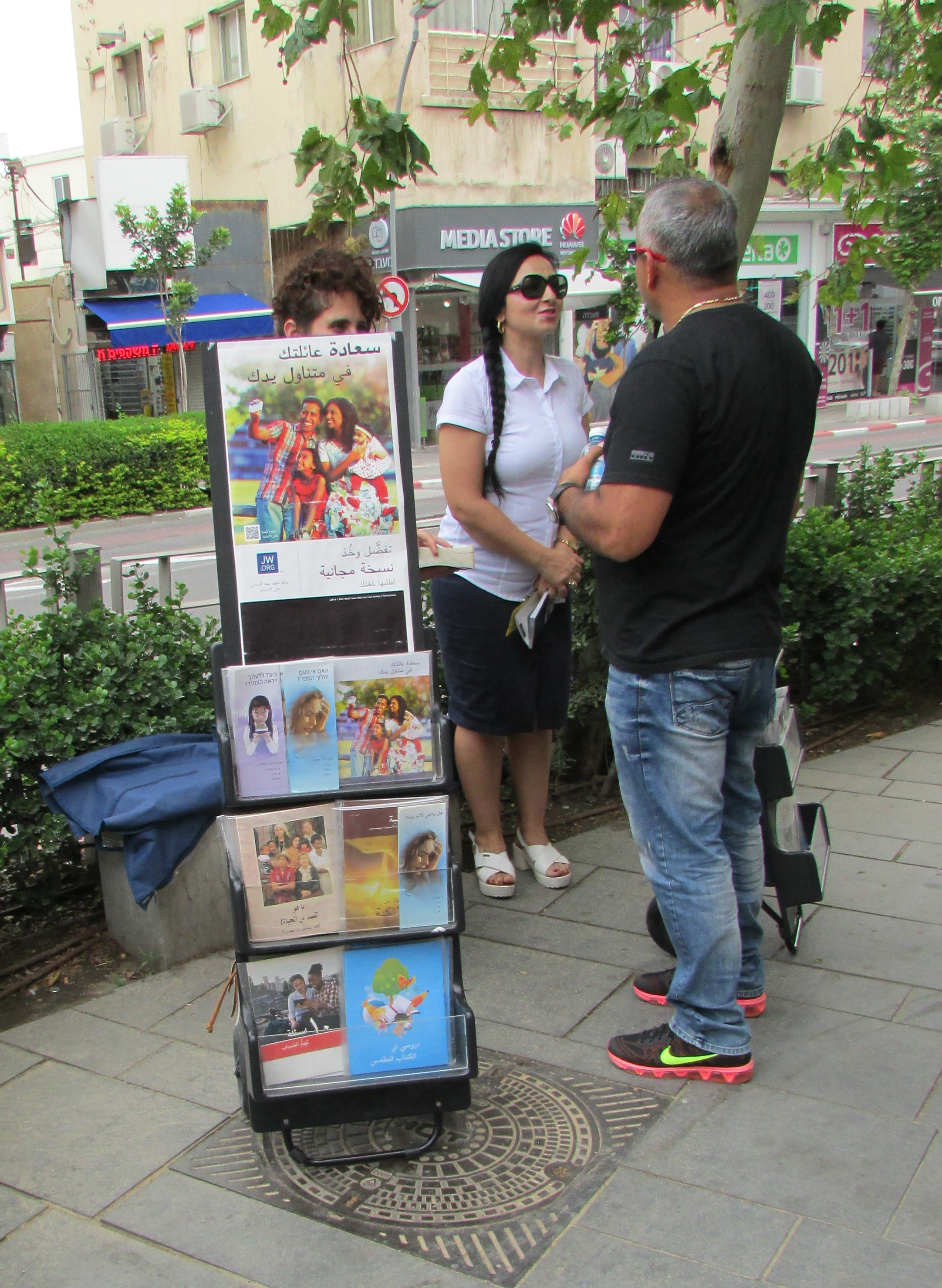 A stand of Jehovah's Witnesses on Herzl street in Haifa.